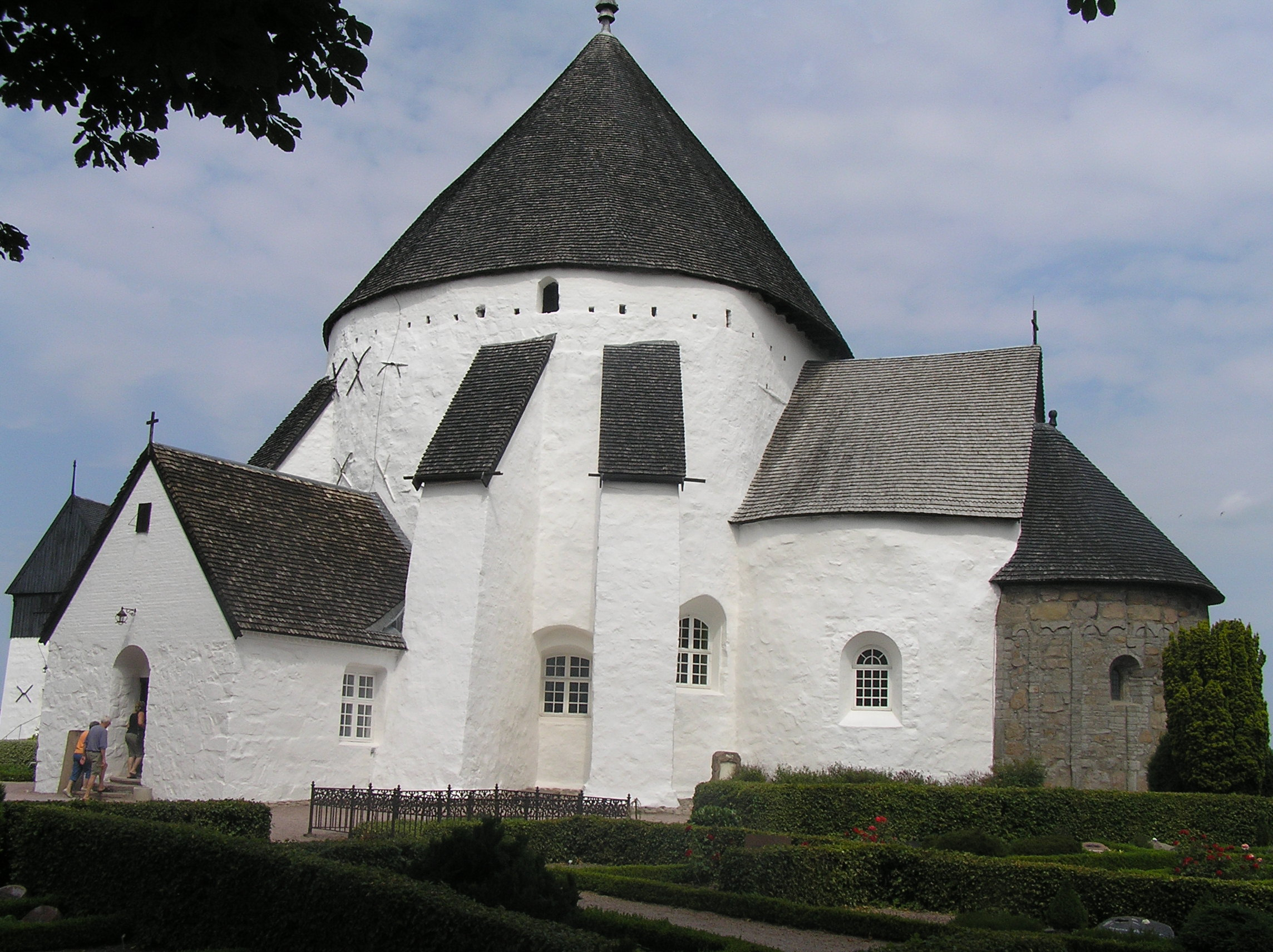 The round church of Østerlars on the island of Bornholm, Denmark.